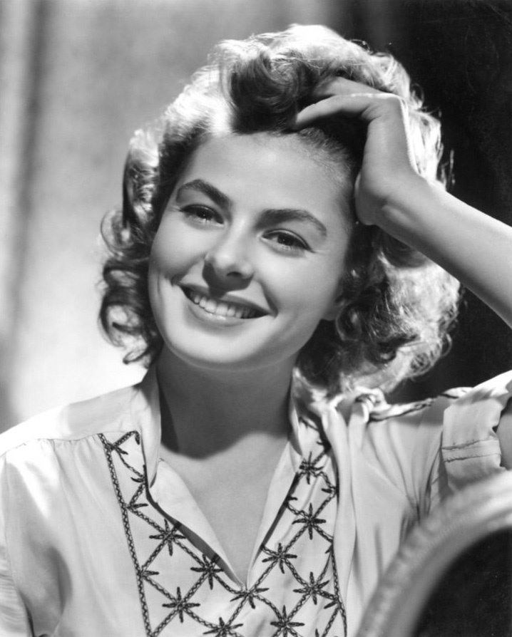 Press release publicity photo of Ingrid Bergman for film Gaslight (1944). Cropped from original upload of File:Ingrid Bergman - Gaslight 44.jpg ([1]). A few minor blemishes have been removed, but otherwise the image is unchanged from the original.